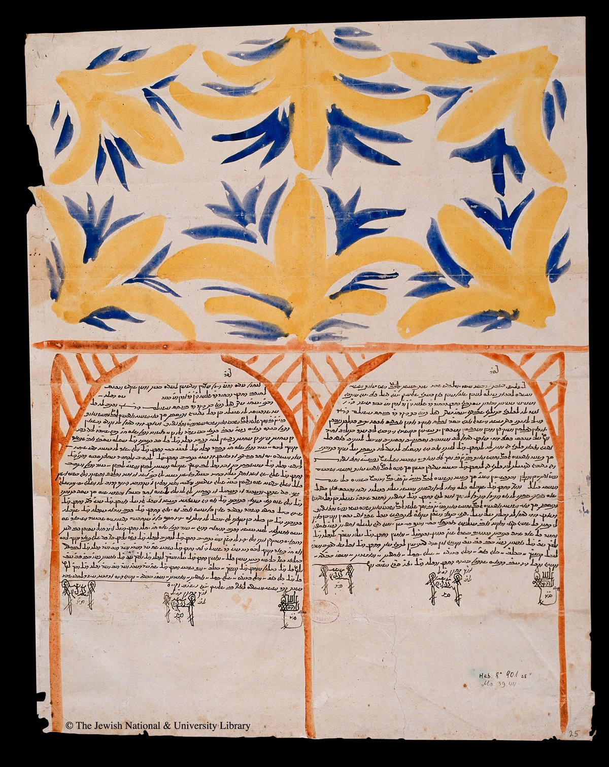 Ketubah from The Ketubot Collection of the National Library of Israel